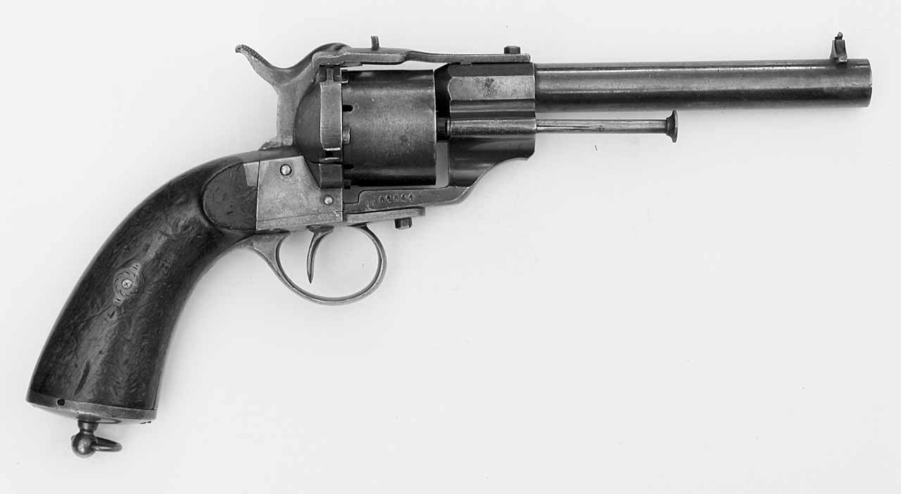 Norsk enkeltspent Lefaucheux revolver M/1864/98 innkjøpt fra Lefaucheux i Frankrike for Hæren i 1864